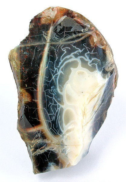 Opal Locality: Virgin Valley District, Humboldt County, Nevada, USA (Locality at ) Size: 6.6 x 4.4 x 2.7 cm. A multicolored piece of opal having replaced petrified wood, from one of the most classic US opal localities. These fossils which retain part of the limb shape are particularly desirable. Polished on front and sides, natural on back. This is from a section of tree wood and it is clearer in person, that it is the case. Opalization is nearly complete, with little original fossil material left. Ex. Charlie Key Collection.